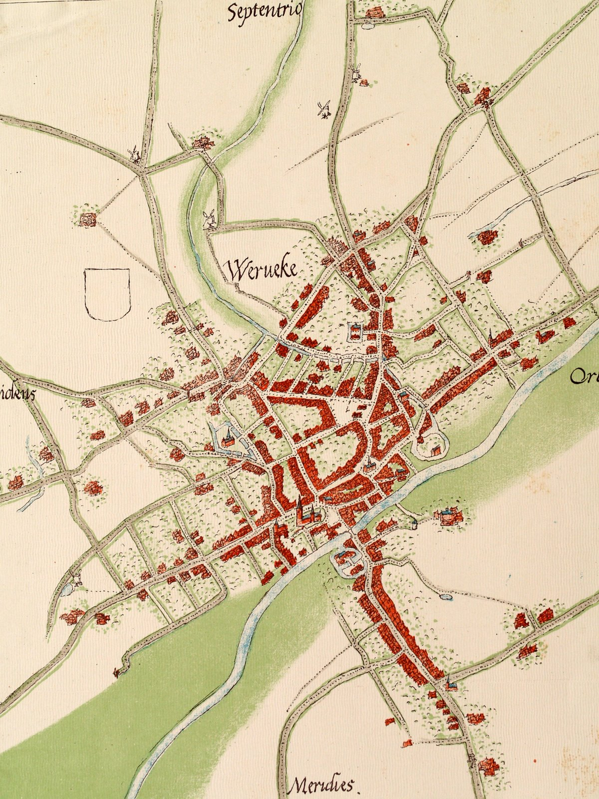 Wervik,_Belgium,_1559-1564_Deventer